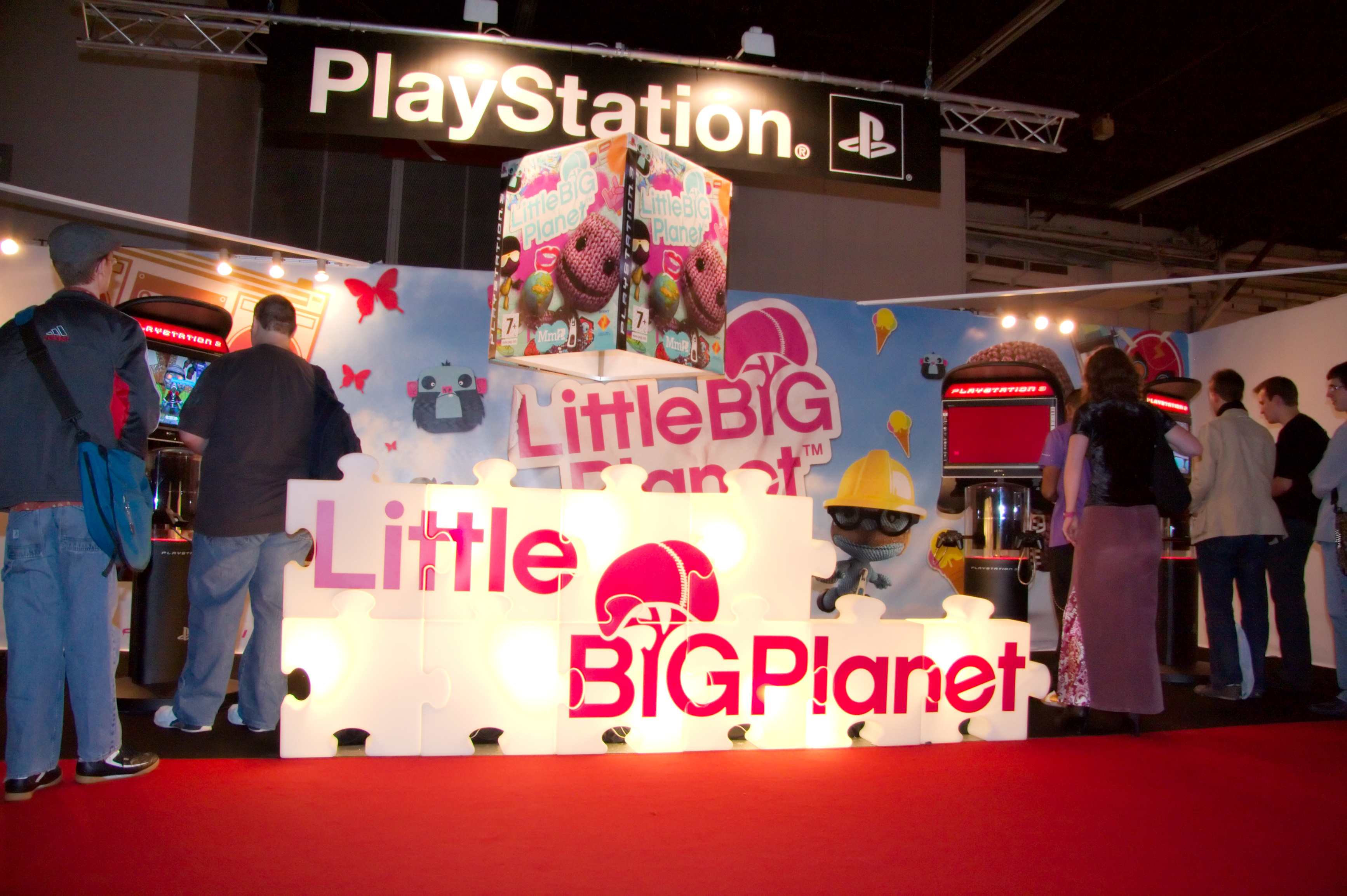 LittleBigPlanet. Festival du jeu vidéo 2008 (video game festival) (Paris, France).